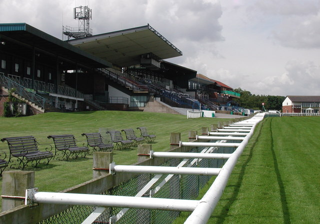 Beverley Racecourse, Beverley, East Riding of Yorkshire, England.View along the stand-side rail inside the final furlong at Beverley Racecourse.